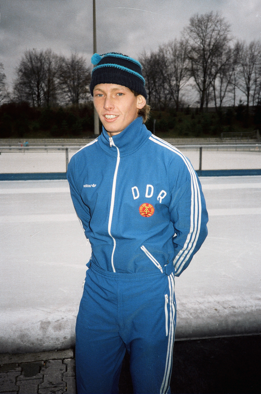 Olympic speedskating champion Uwe Jens mey